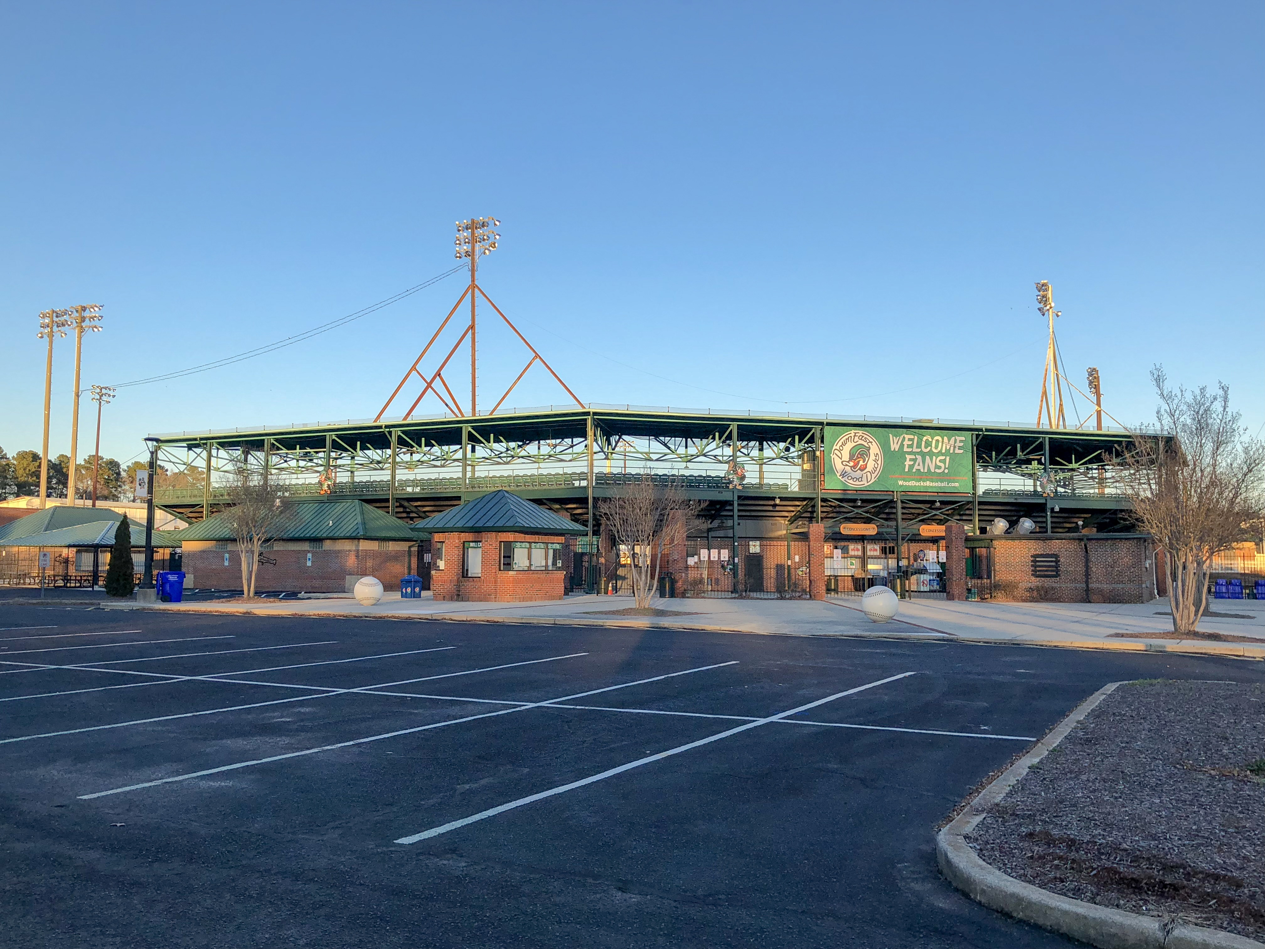 Grainger Baseball Stadium in Kinston, North Carolina.